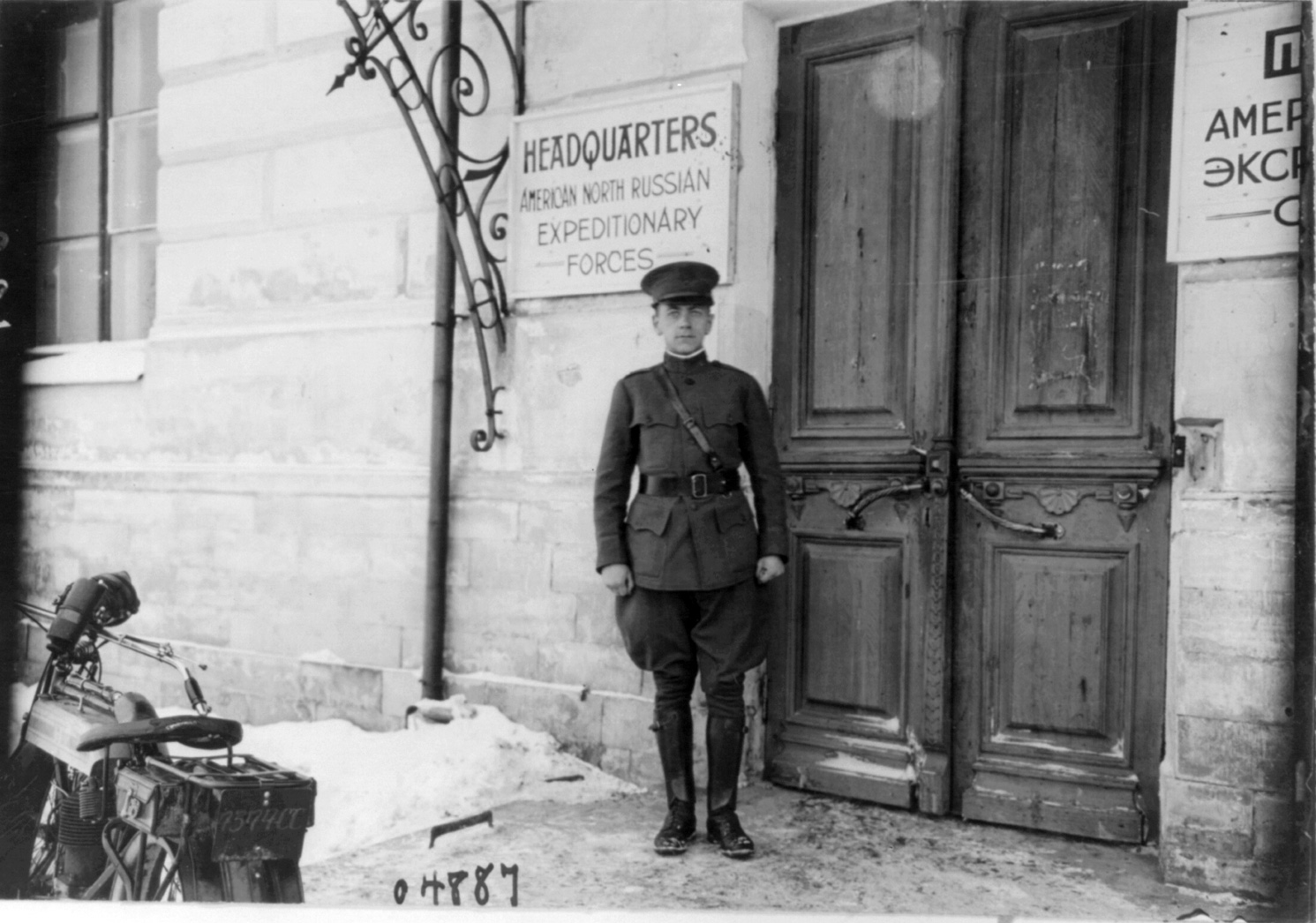 Capt. Prince Asst. Military Attache, U.S.A. Standing, in front of Headquarters, American North Russian Expeditionary Forces, Russia.